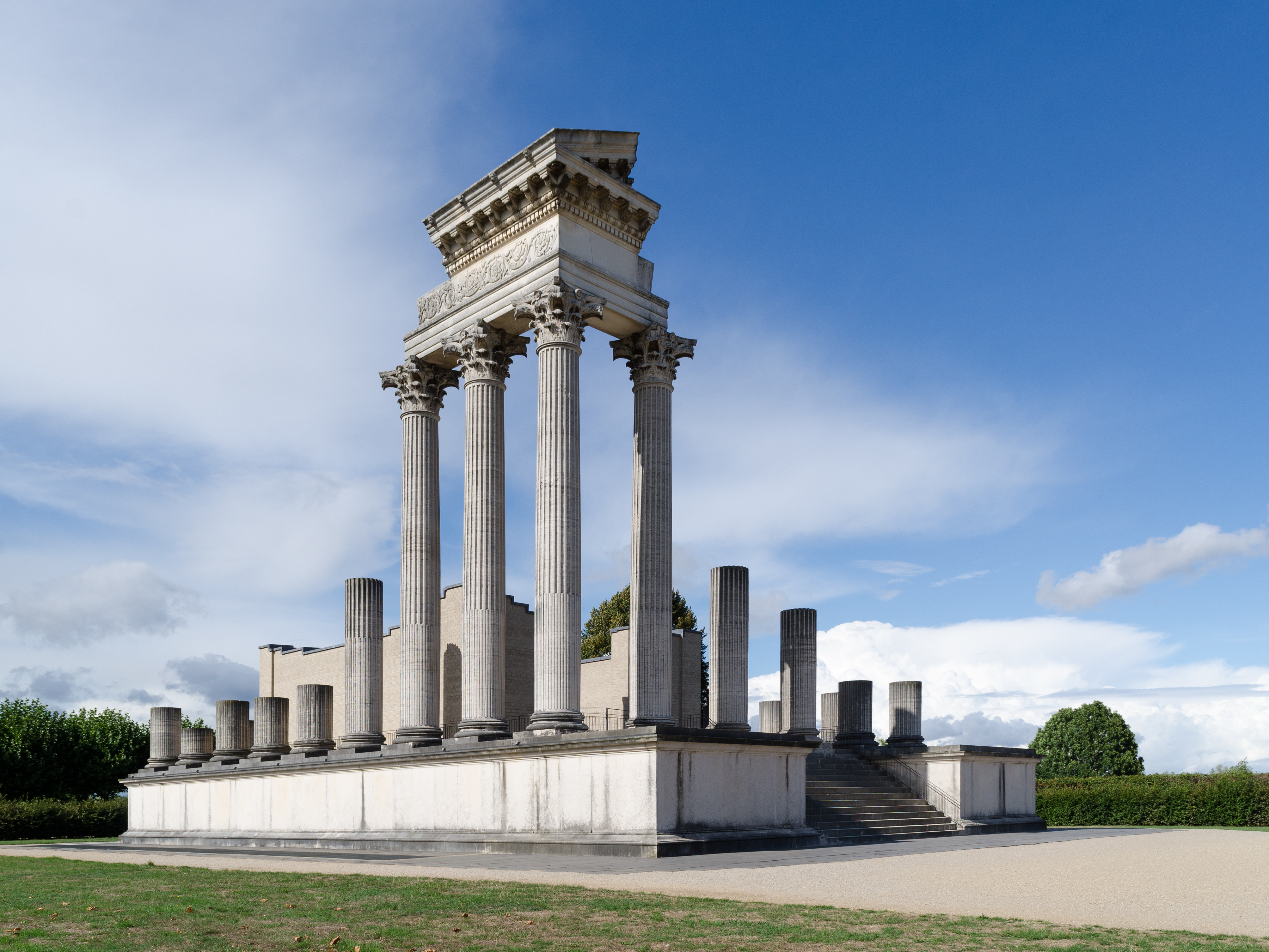 Xanten (North Rhine-Westphalia, Germany) – Archaeological Park – reconstructed harbour temple of the ancient Roman settlement Colonia Ulpia Traiana